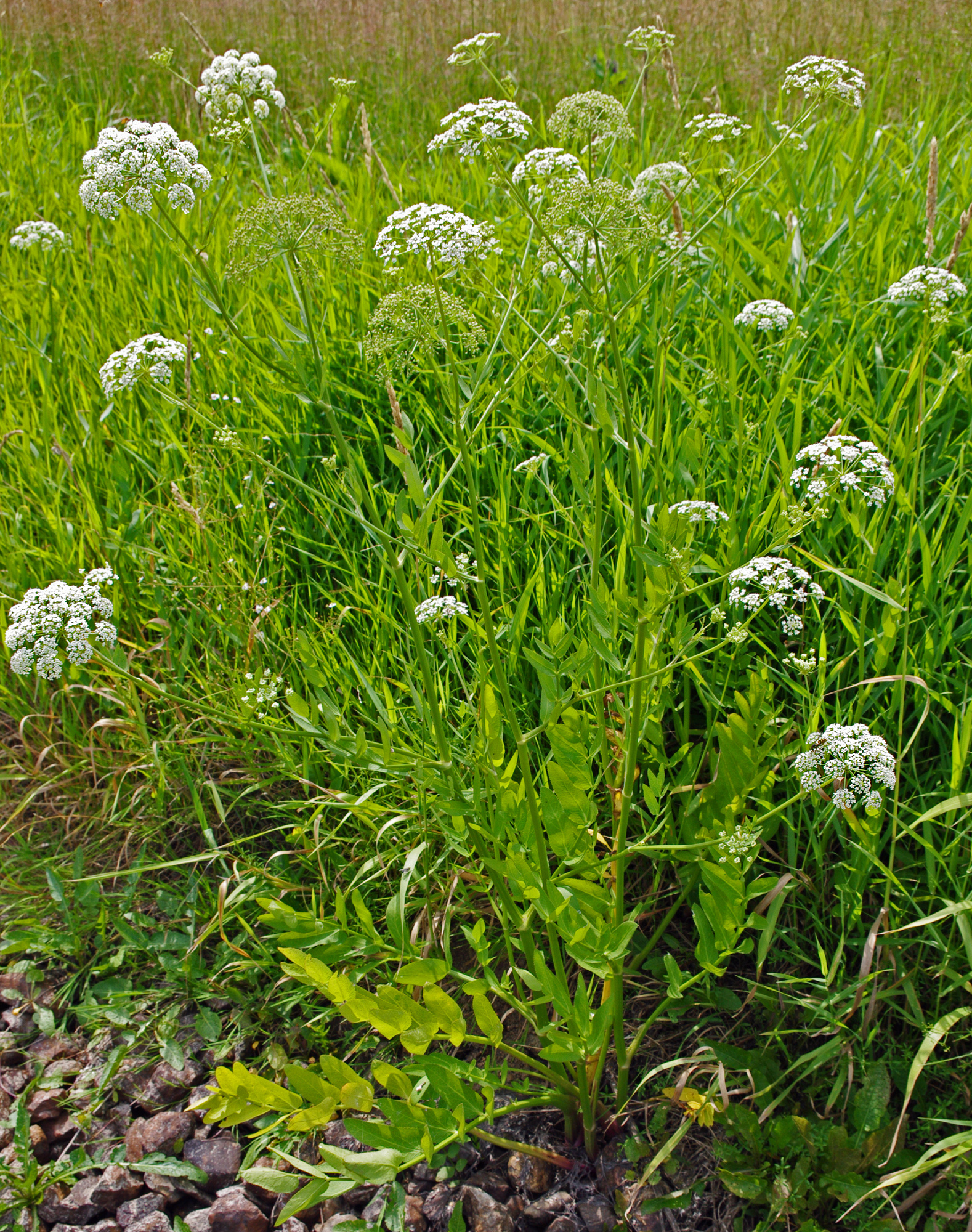 Habitus of flowering Sium latifolium.